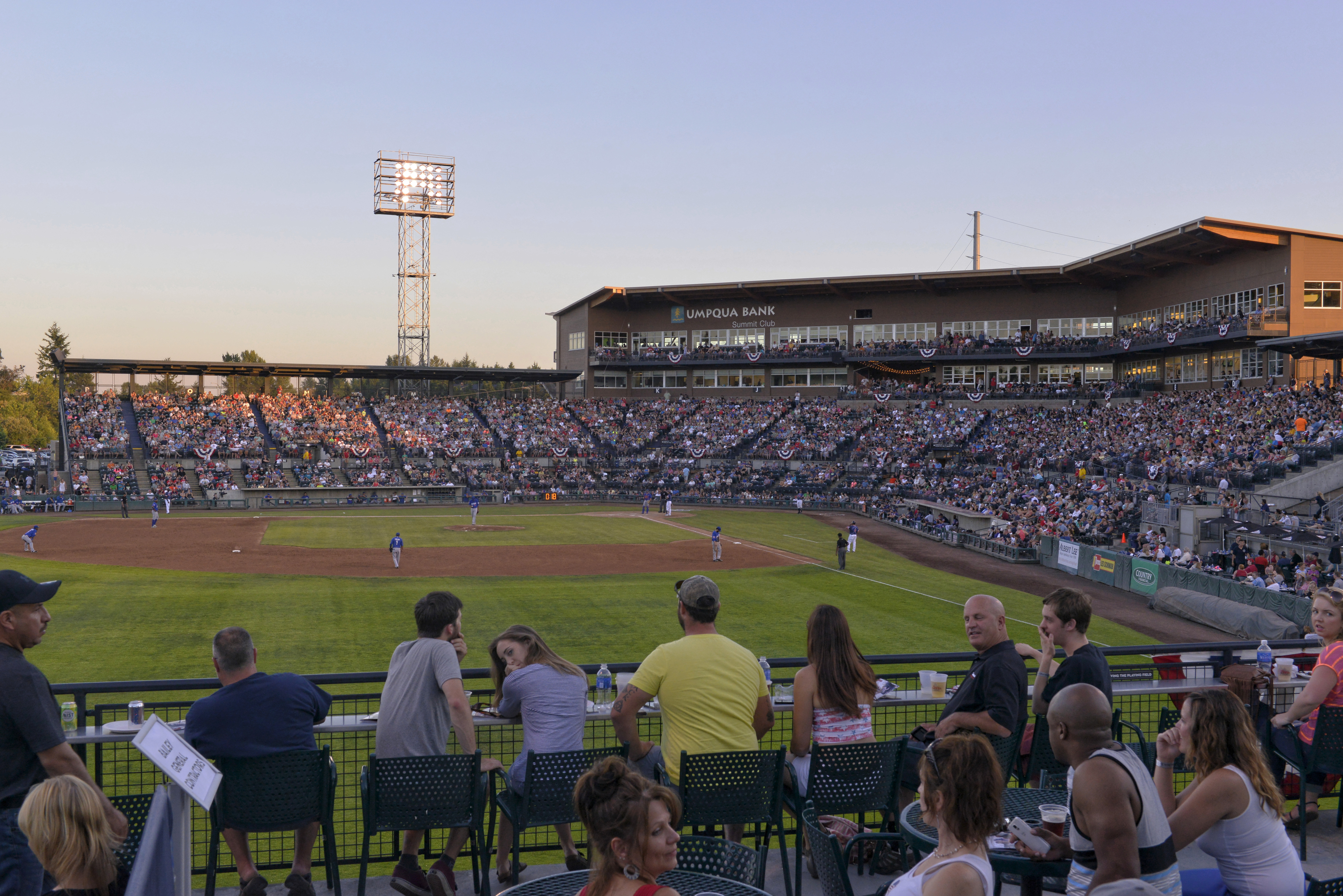 Cheney Stadium during a game on July 3, 2015